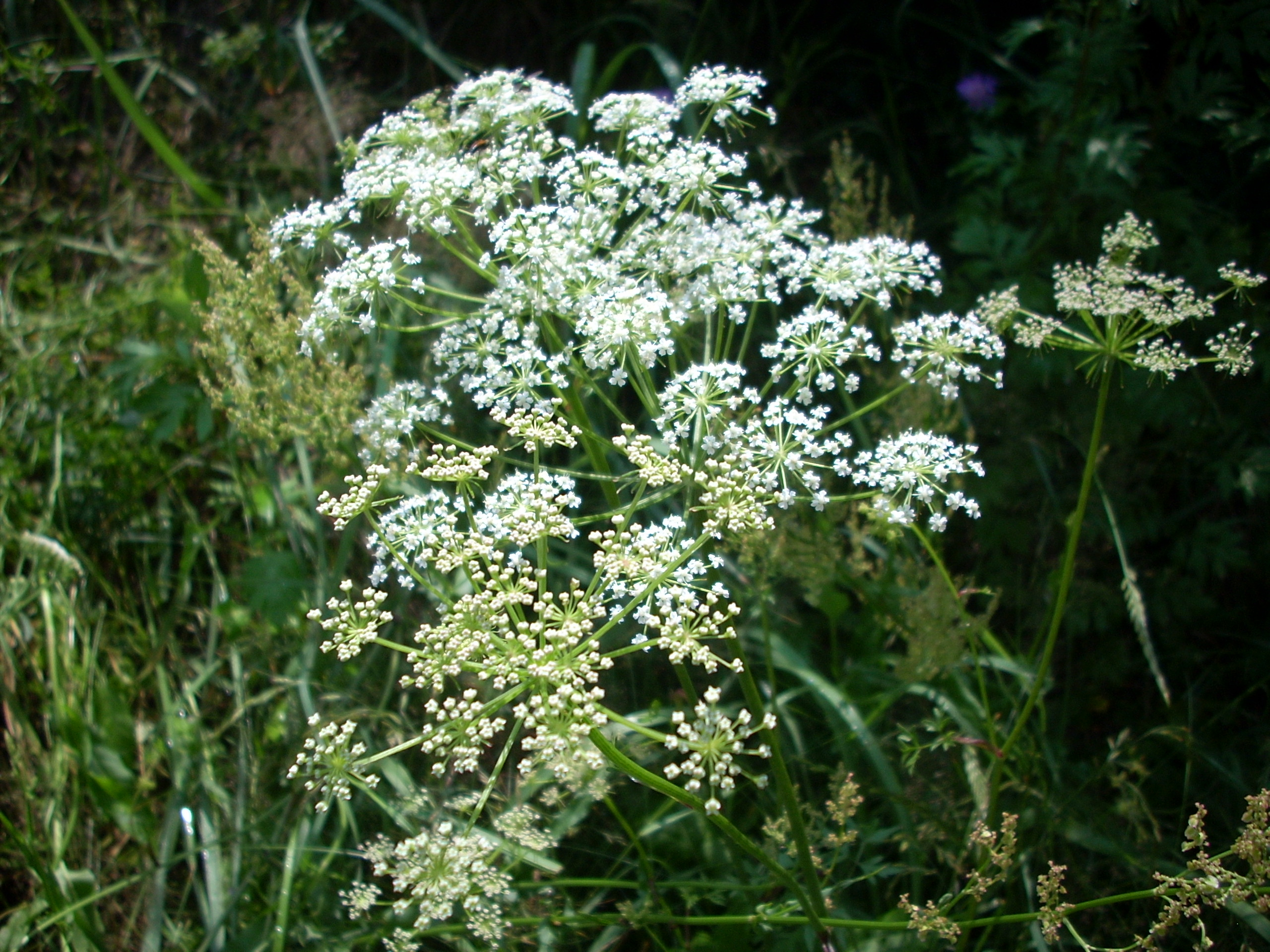 Pimpinella saxifraga